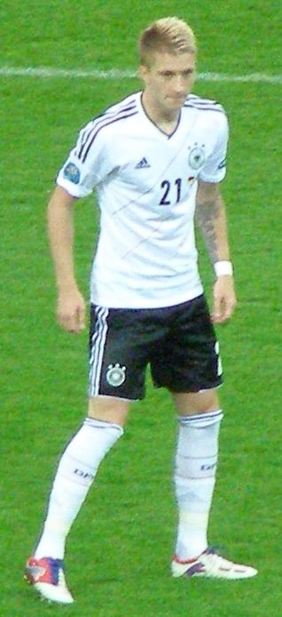 Gdańsk - PGE Arena - Euro 2012 - quarter final match Germany - Greece - Marco Reus